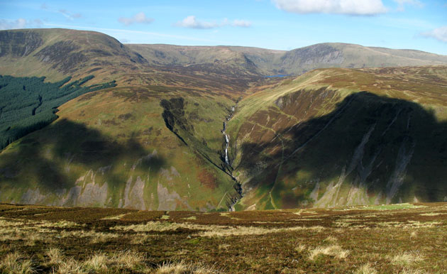 View of Grey Mare's Tail waterfall, Moffat Hills, Southern Uplands of Scotland - from Bodesbeck Ridge in the Ettrick Hills